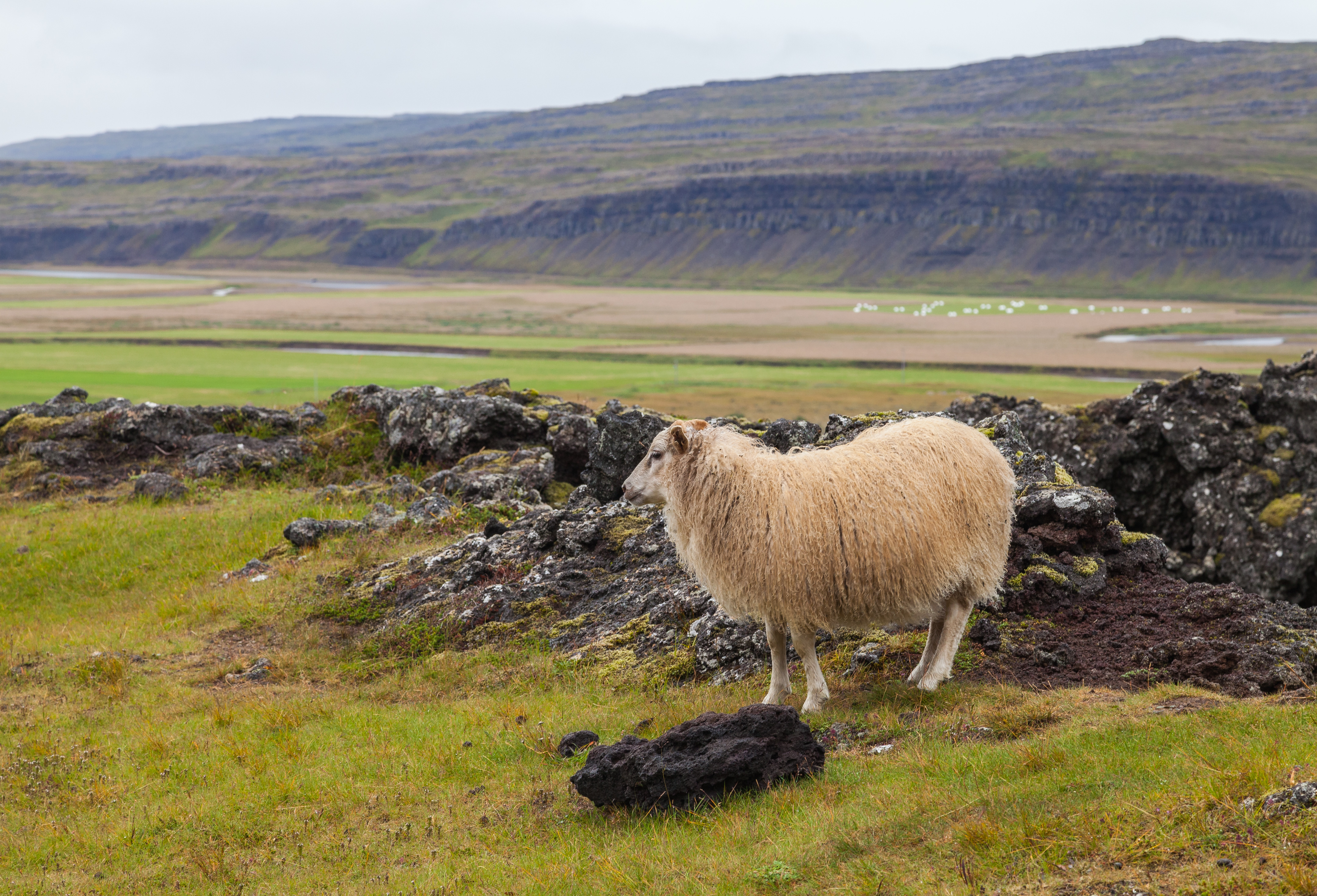 Icelandic sheep, Grábrók, Vesturland, Iceland